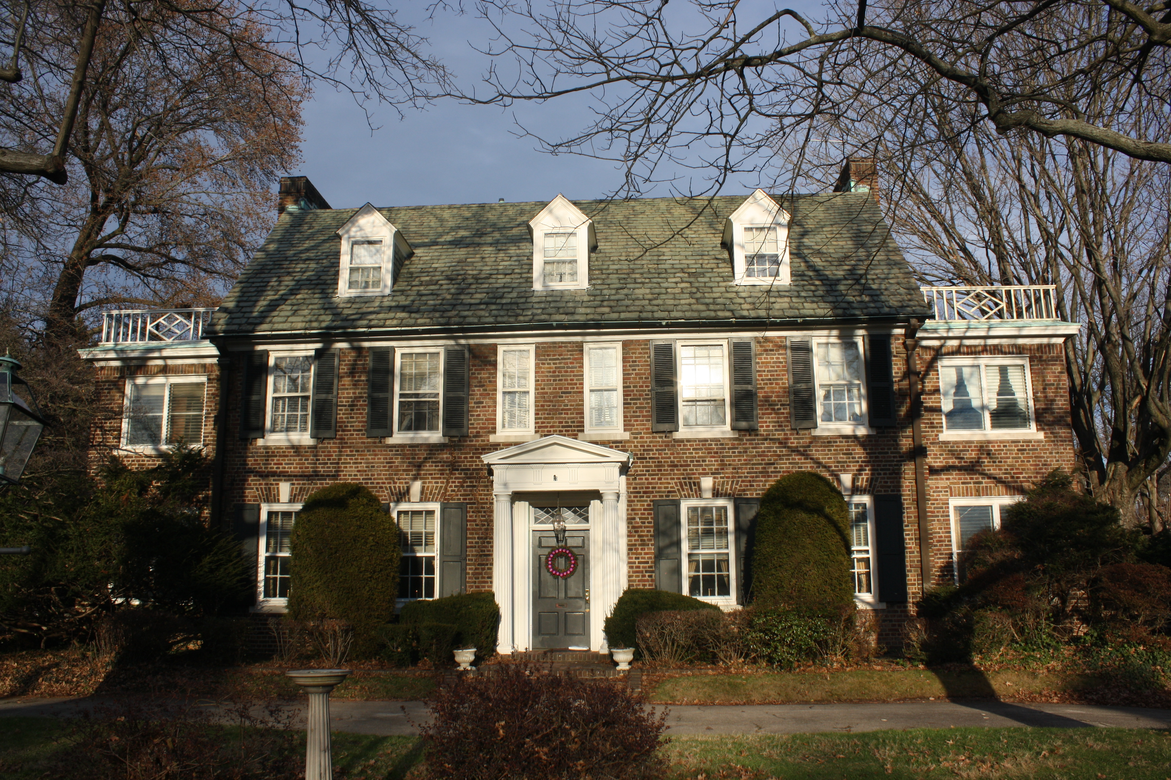 The Kelly Family House in East Falls section of Philadelphia (3901 Henry Avenue) was built by John B. Kelly, Sr. in 1929. Grace Kelly, actress and Princess of Monaco grew up here. Here Prince Rainier III, Prince of Monaco proposed her in 1955 Christmas. Grace Kelly's mother, Margaret Kelly, sold the house in 1970. In 2016, Grace Kelly's childhood house was purchased by her son, Prince Albert of Monaco.